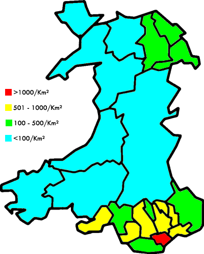 A new verion of File:UK,_Wales,_Population_Density.PNG.(Original text: Image:Wales1996Blank.png with some modifications)